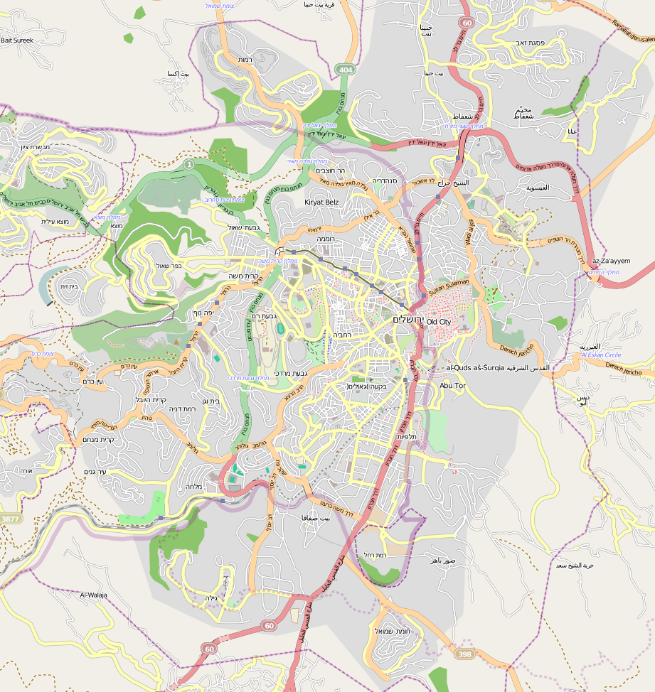 Map of Jerusalem Geographic limits of the map: N: 31.8299° S: 31.7163° W: 35.146° E: 35.2723°